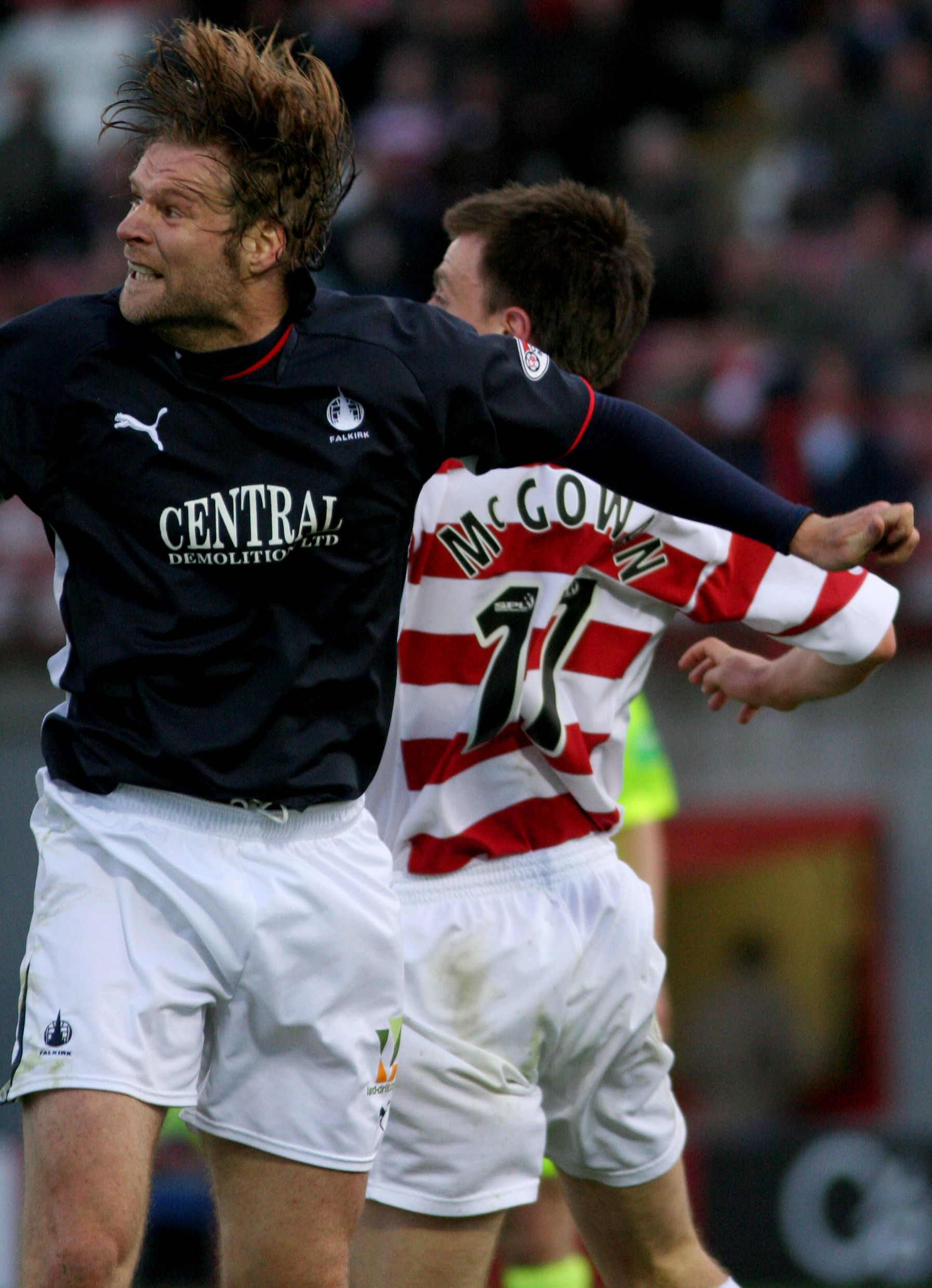 Pressley